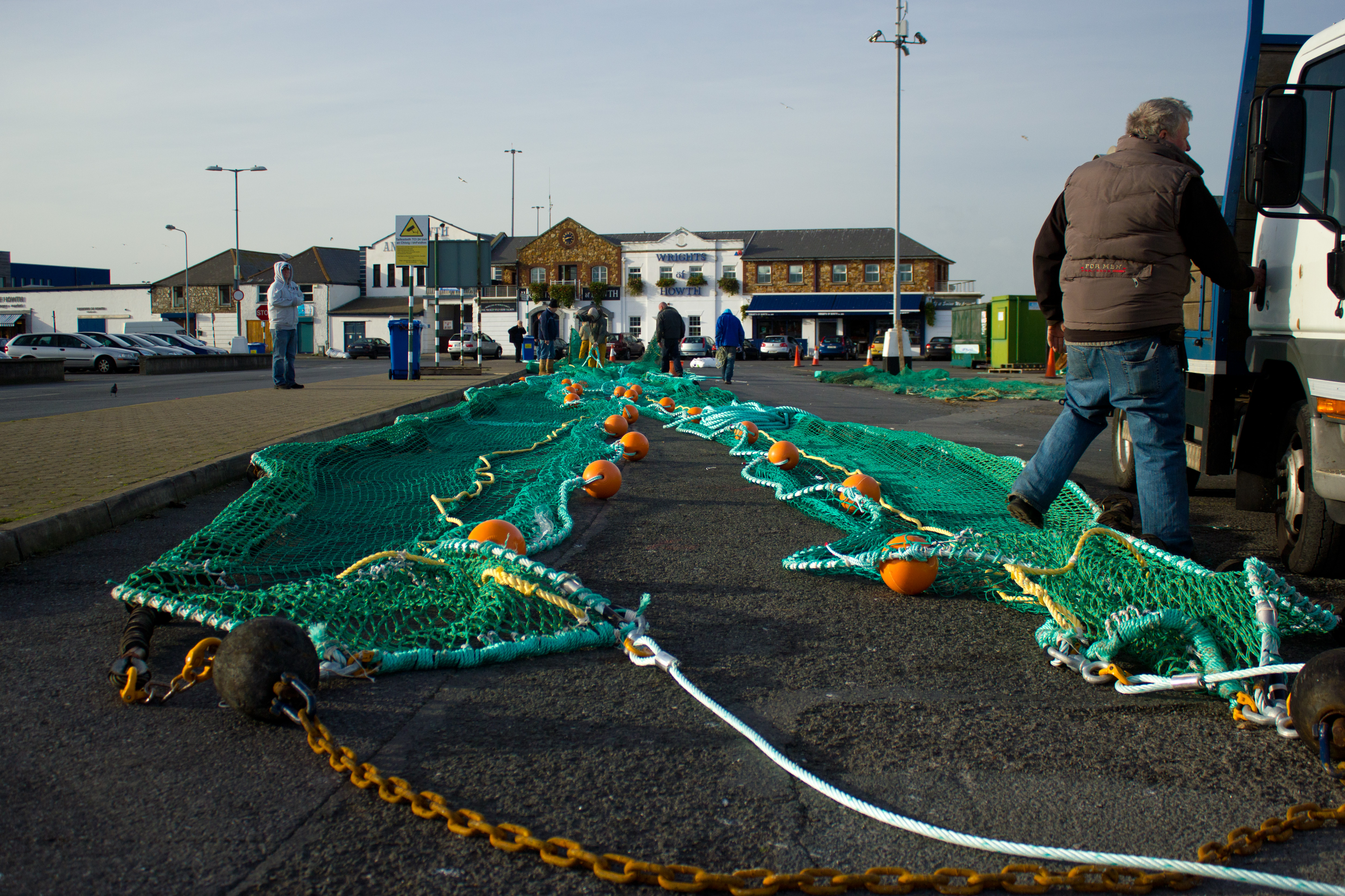 Ireland 2011